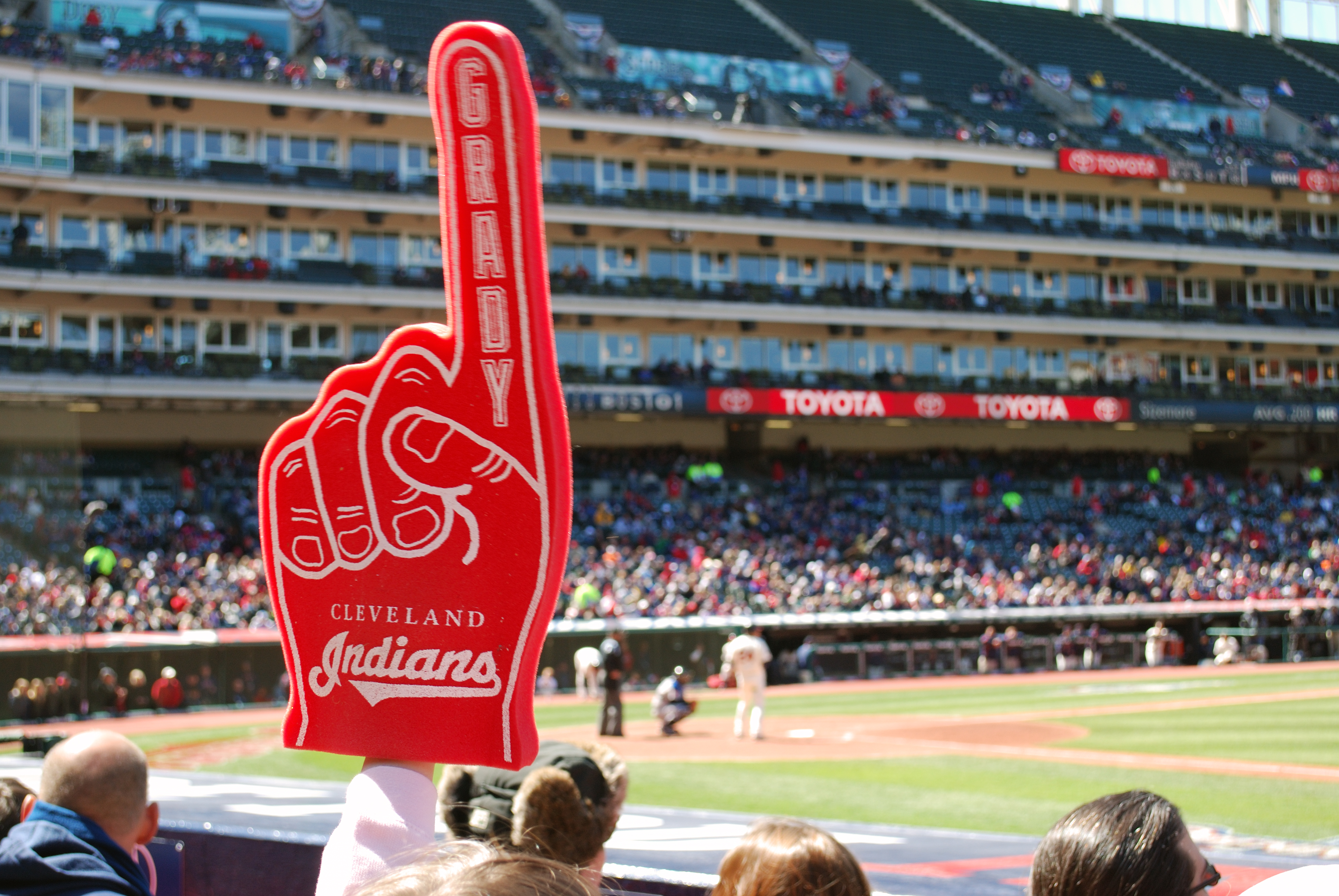 Grady Sizemore up to bat, with a young girl holding a Grady foam finger, cheering from the stands. From the April 11, 2009 Indians vs. Blue Jays game